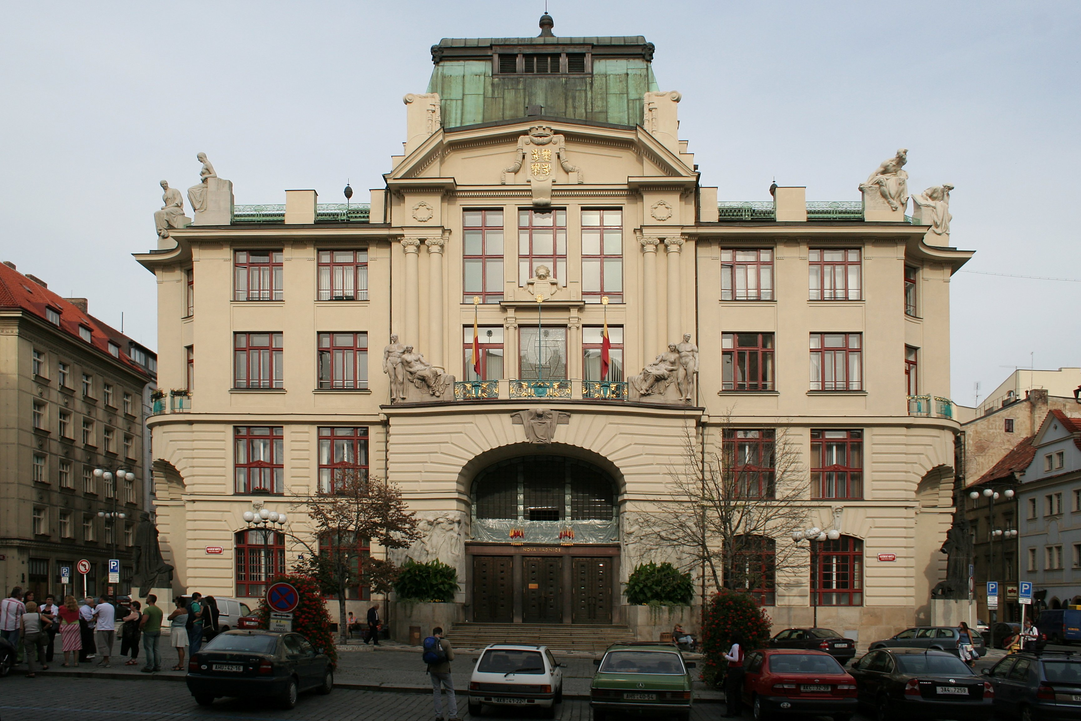 New townhall, Old town, Praha